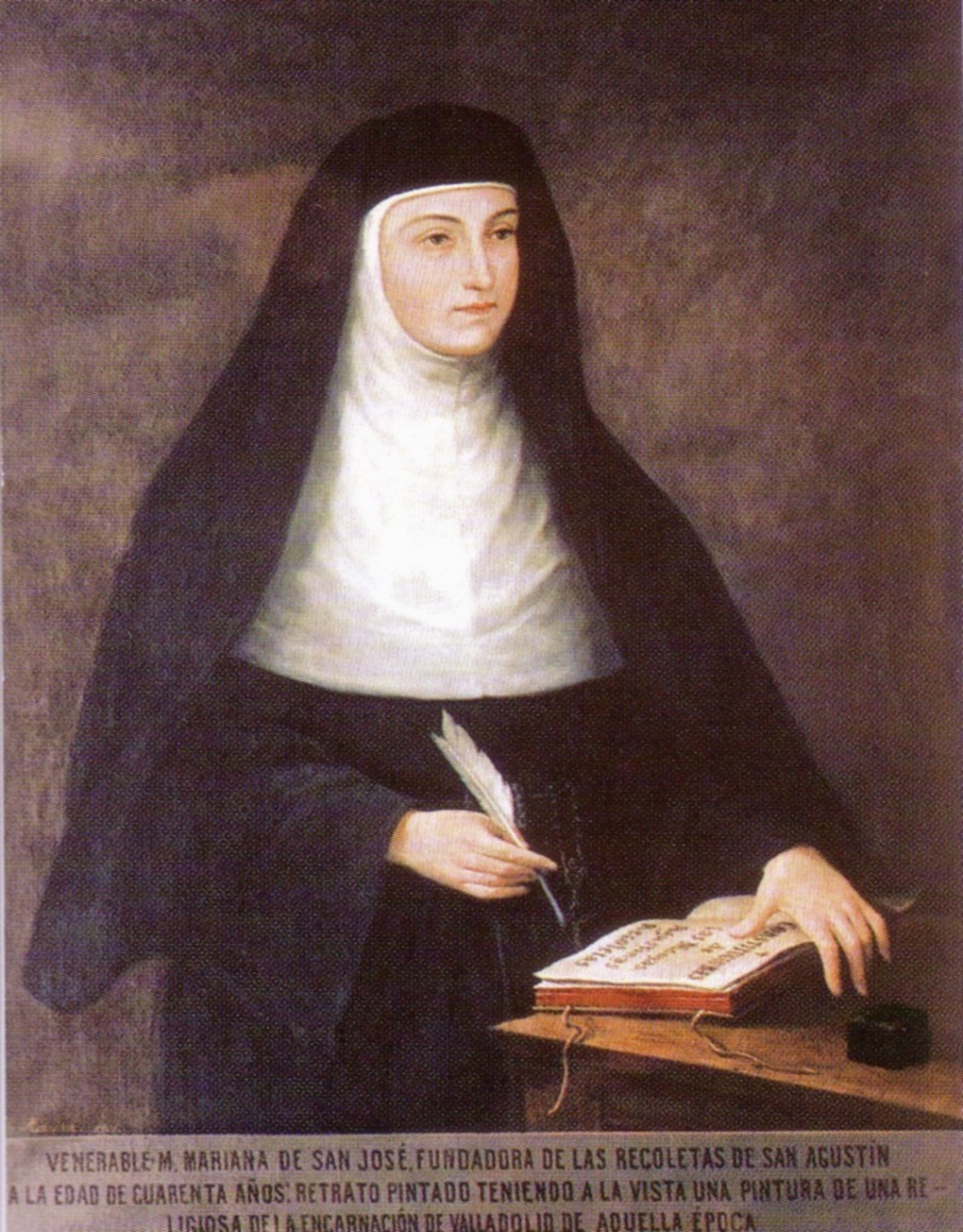 Considerada la "segunda Santa Teresa" por sus escritos y su vida mística, fundó varios monasterios de Agustinas Recoletas Contemplativas